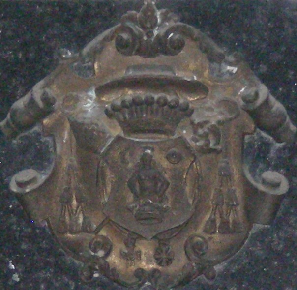 Coat of arms of Ágoston Forgách, titular bishop of Šibenik (1861 - 1888), provost of the Chapter of Esztergom. Gravestone in crypt of Esztergom Basilica. Inscription on the gravestone: HIC JACET // PIE IN DOMINO DENATUS // JLLUSTRISSIMUS AC REVERENDISSIMUS DOMINUS // AUGUSTINUS E COMITIBUS FORGÁCH DE GHYMES ET GÁCS // ELECTUS EPPUS. SIBENICENSIS, ECCL. M. STRIG. PRAEPOSITUS MAJOR ET CANONICUS // ABBAS B. M. V. DE KOLOS, JNCL. COMITATUS ET L. REG. CIVITATIS STRIGON. EMER. // SUPREMUS COMES, JNSIG. ORD. S. JOANNIS HIEROSOLYMITANI MELITENSIUM AD HON. // EQUES, SAC. JUB. IN A SECUNDUM. // NATUS BUDAPESTINI DIE 22. APRILIS 1813, // OBIIT STRIGONII DIE 26. APRILIS 1888 // + // REQUIESCAT IN SANCTA PACE!